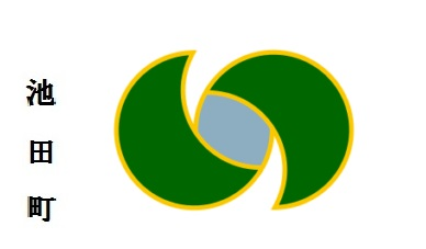 Flag of Ikeda Nagano